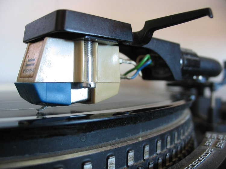 A gramophone cartridge with stylus for use on vinyl records / Phonograph / Grammophone / Record-player